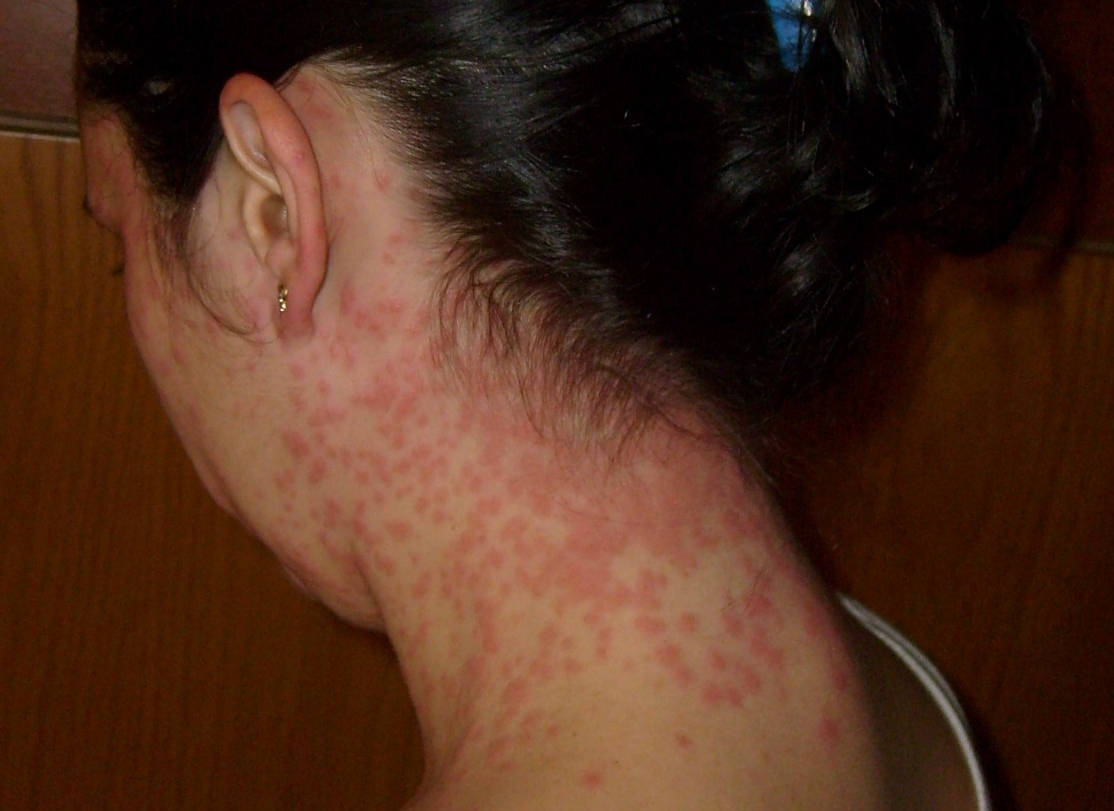 Rash caused by searching something in a Prunus sp. bush infested with Euproctis Chrysorrhoea catterpillars (larvae) in different stages (mostly the last one)